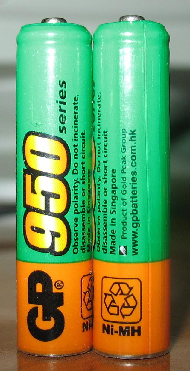 A photo I took myself of two NiMH AAA-sized batteries manufactured by Gold Peak Company.